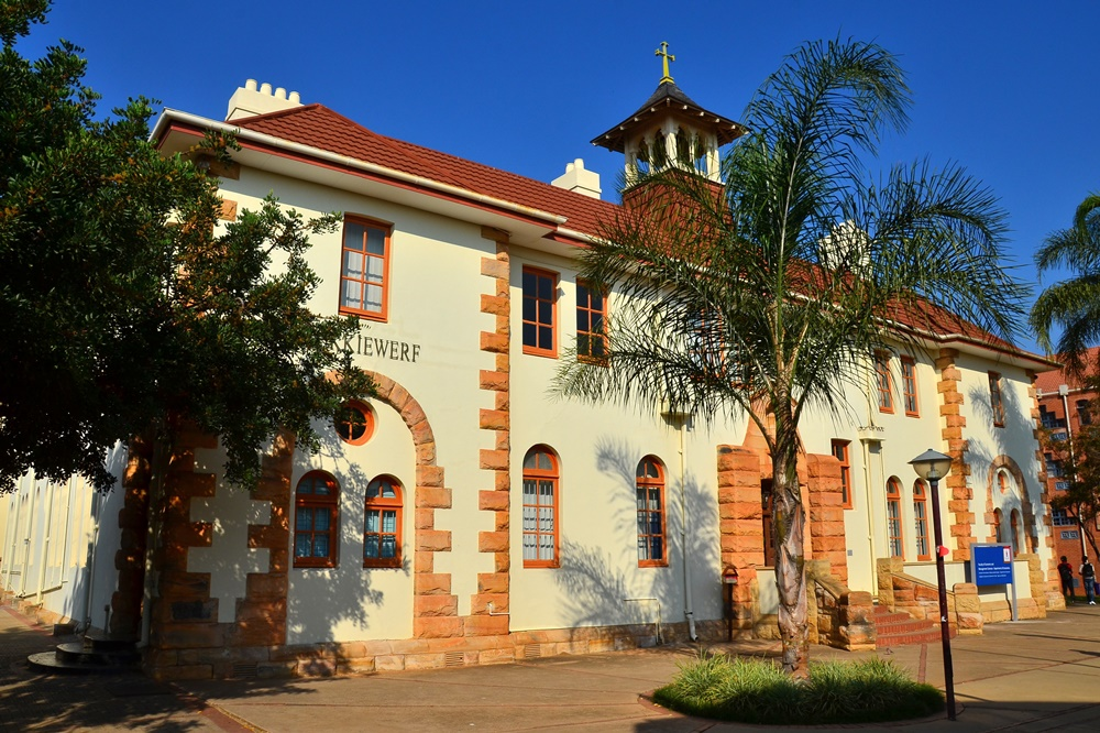 Tukkiewerf on the Hatfield campus of the University of Pretoria